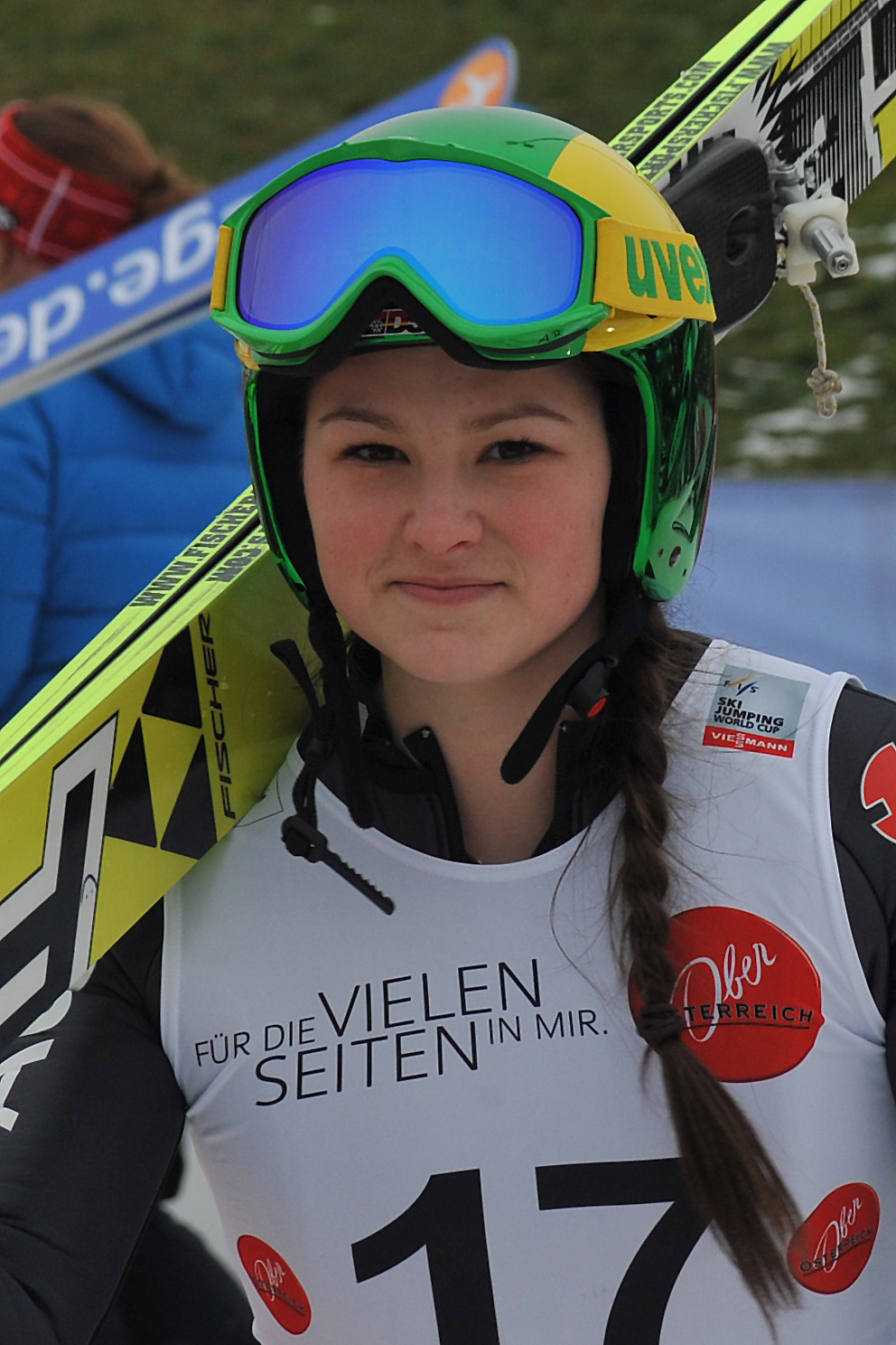 FIS Ski Jumping World Cup Ladies 14th World Cup Competition Normal Hill Individual Hinzenbach (AUT) Sun 2 Feb 2014: Anna Rupprecht